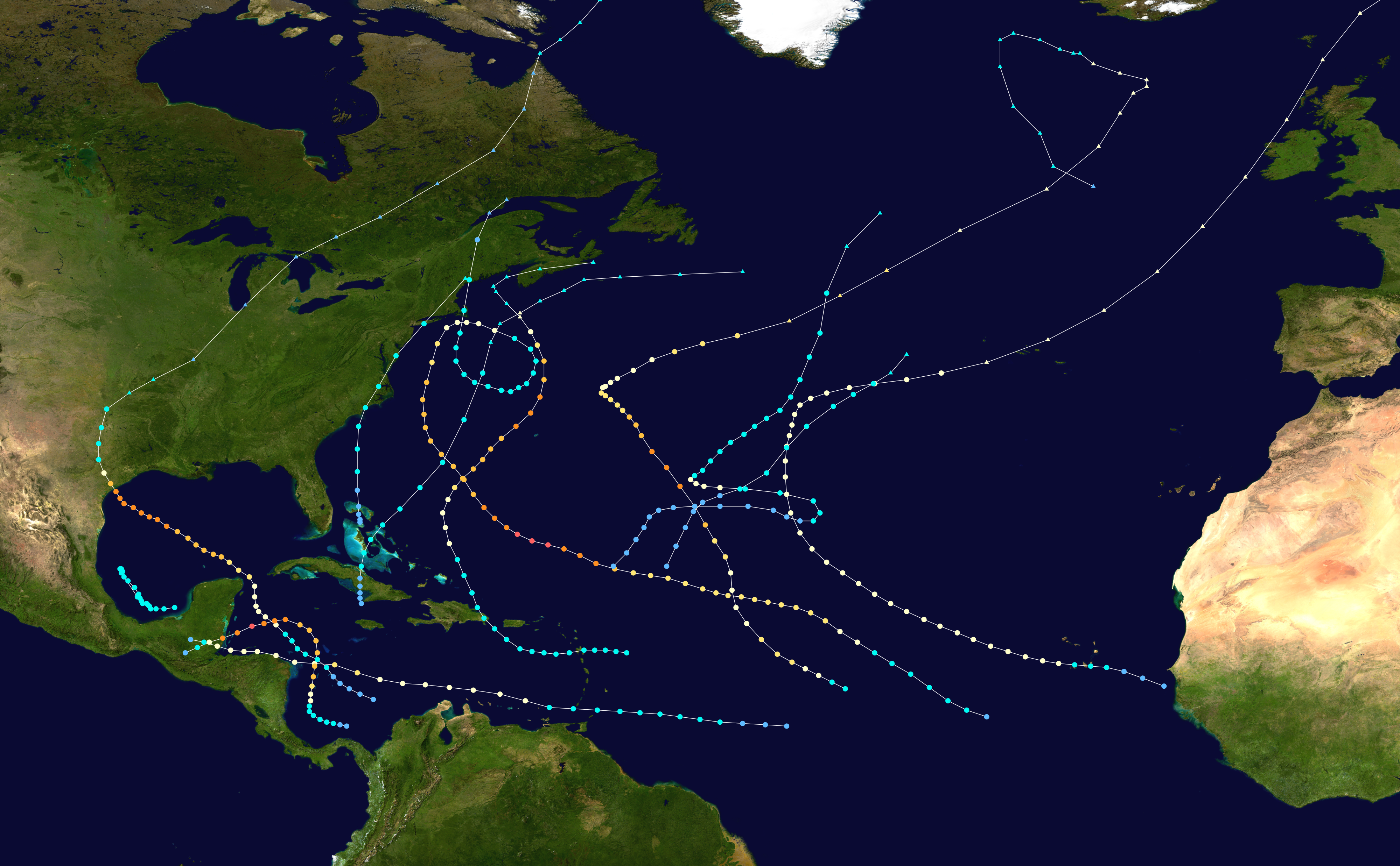 This map shows the tracks of all tropical cyclones in the 1961 Atlantic hurricane season. The points show the location of each storm at 6-hour intervals. The colour represents the storm's maximum sustained wind speeds as classified in the Saffir-Simpson Hurricane Scale (see below), and the shape of the data points represent the type of the storm. Saffir–Simpson scale Tropical depression≤38 mph≤62 km/h Category 3111–129 mph178–208 km/h Tropical storm39–73 mph63–118 km/h Category 4130–156 mph209–251 km/h Category 174–95 mph119–153 km/h Category 5≥157 mph≥252 km/h Category 296–110 mph154–177 km/h Unknown Storm type Tropical cyclone Subtropical cyclone Extratropical cyclone / Remnant low / Tropical disturbance / Monsoon depression